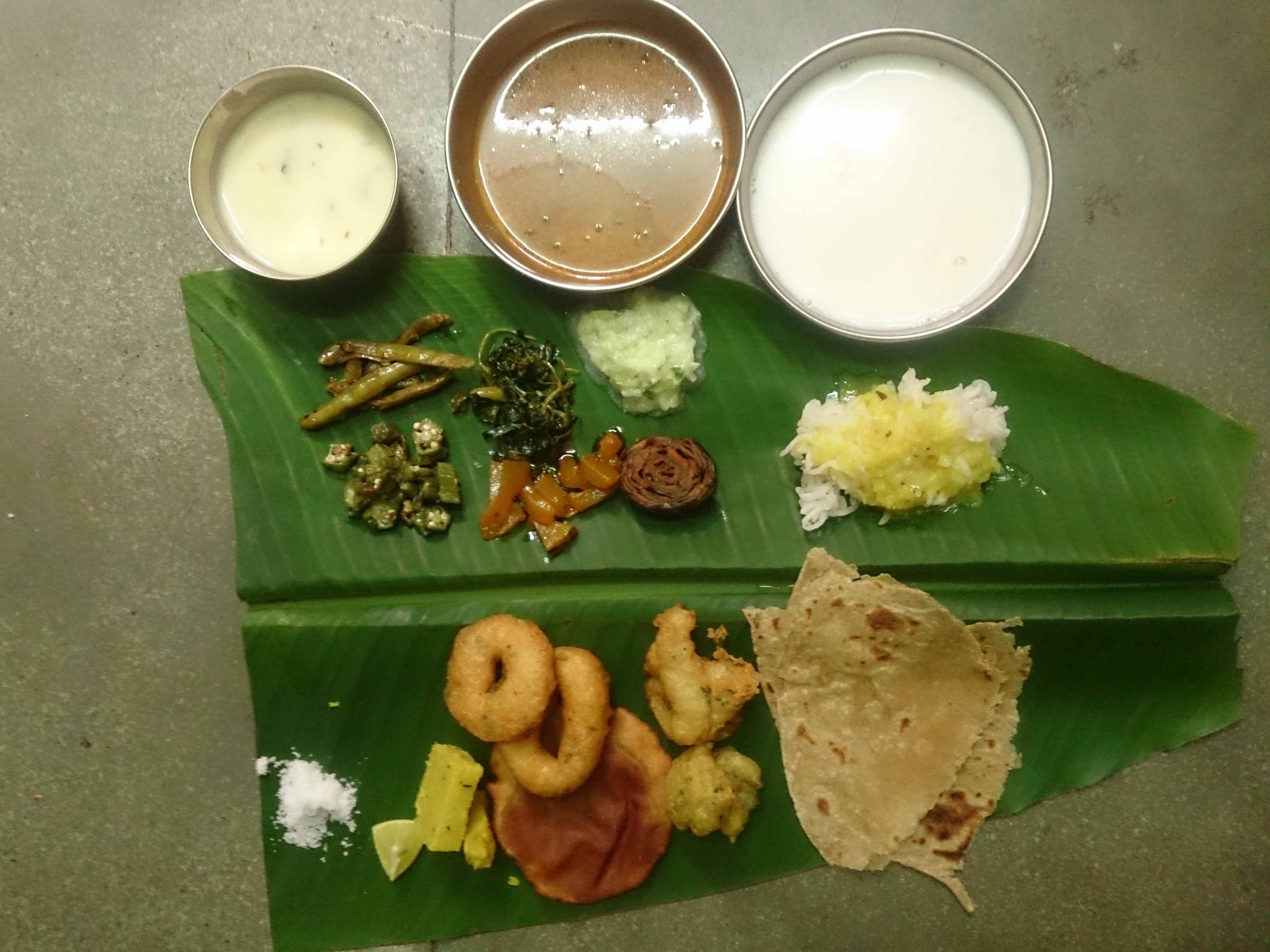 Photo for Wiki Takes Nashik